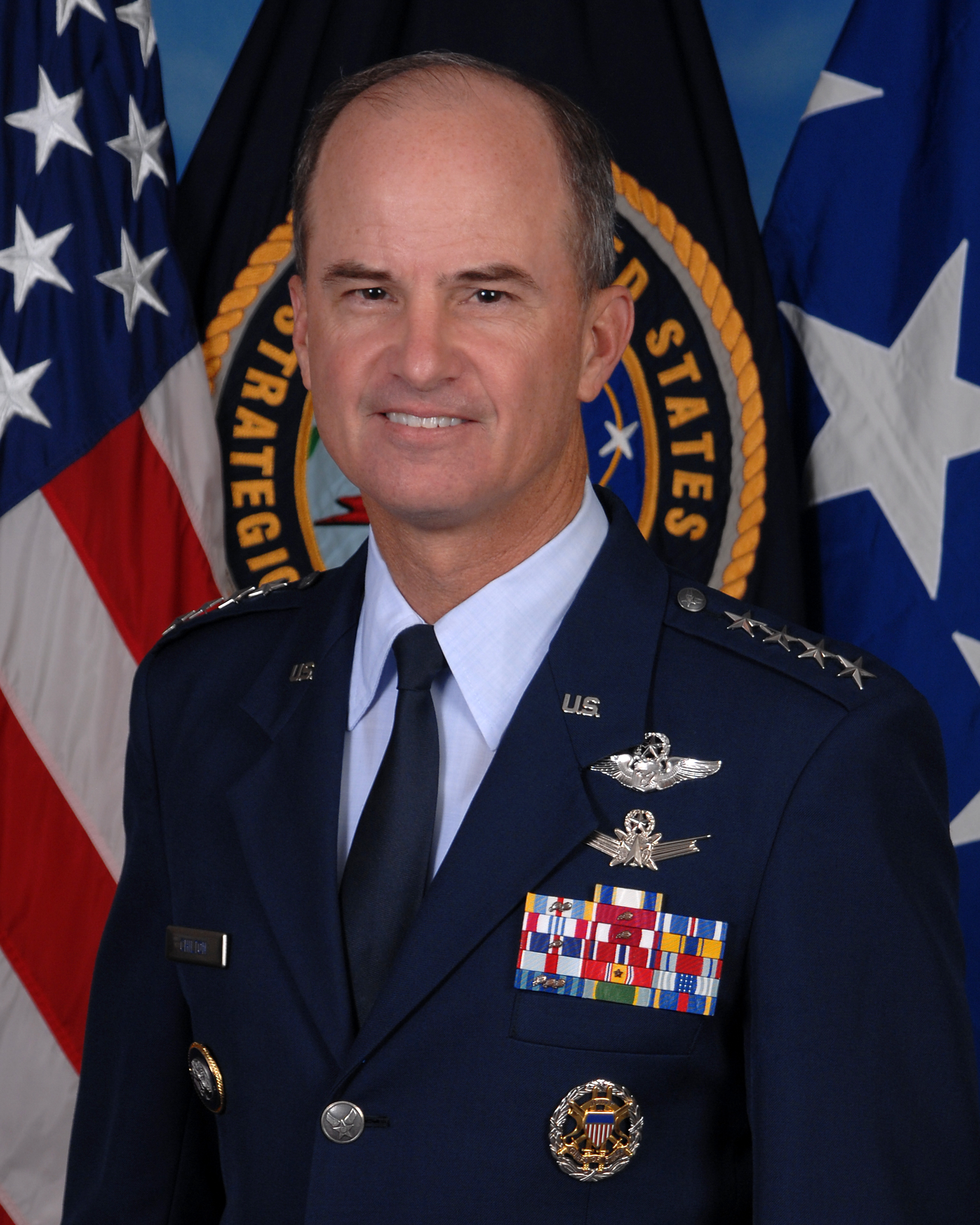 General Kevin P. Chilton, USAF, Commander, Air Force Space Command.